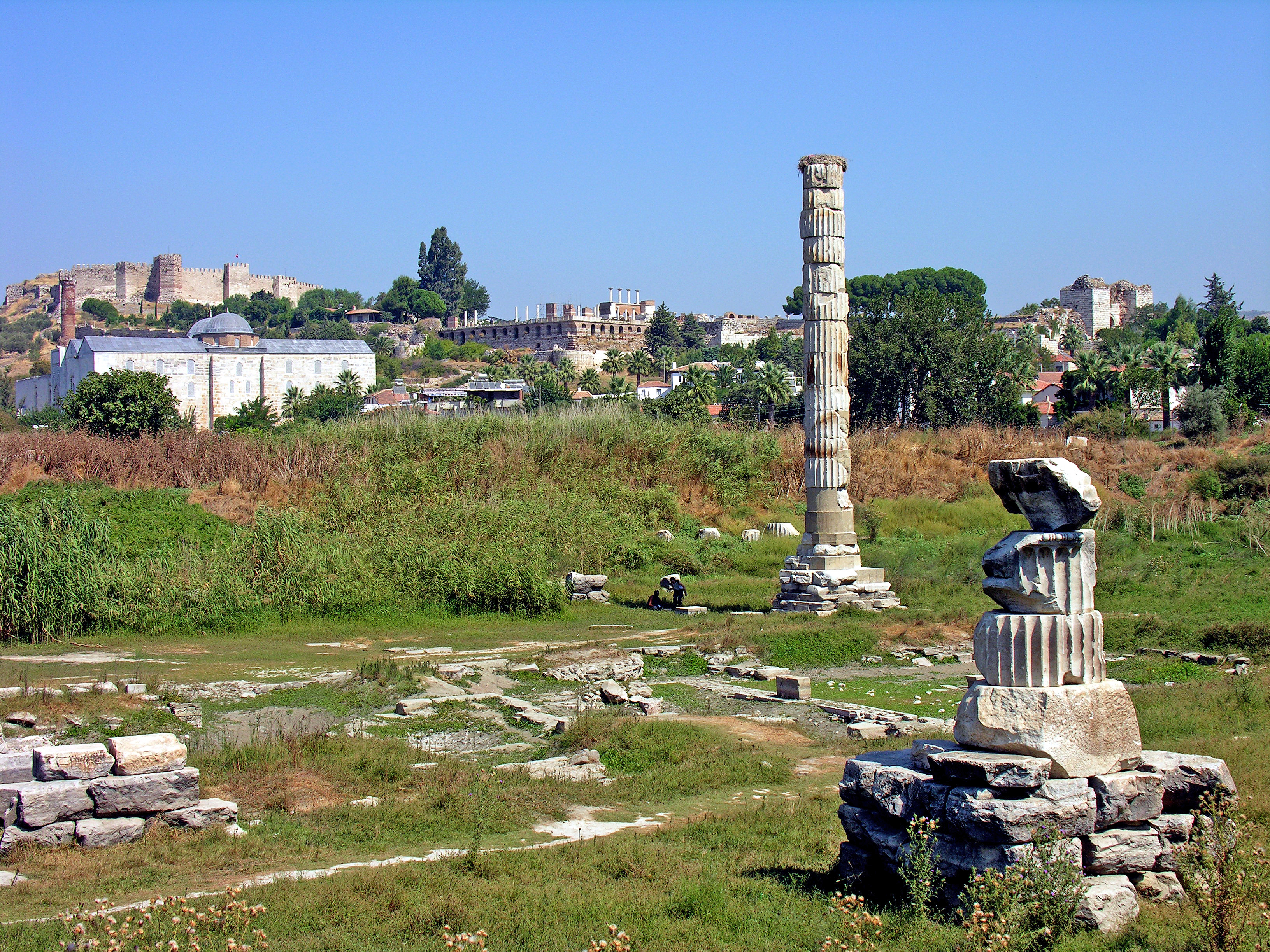 The temple of Artemis is known as one of the Seven Wonders of the ancient world. In the background (left to right) are a Byzantine castle, Church of St. John and a 14th century Mosque. It was built in the area of Ephesus on a flat area which has over the centuries turned into a swamp. Today one can only see the ruins of the foundations of this marvelous construction of the Hellenistic Age, entirely made of marble and full of sculptured columns' capitals and shafts. The oldest remains found date back till the 6th century BC. It was surrounded by 36 huge columns, later enlarged upon the orders of the Lydia King, Kreisos, during the 6th century BC. The new Artemis was rebuilt in the 2nd century BC. Located on top of the previous one, it had tremendous dimensions: 125 columns of each 17.5 meters high. Unfortunately this one was also destroyed by fire, reconstructed and again demolished by earthquakes, rebuilt and at last looted by Goths one year later. The statue of many-breasted Artemis was the symbol of the temple but also of abundance, hunting and wild life.